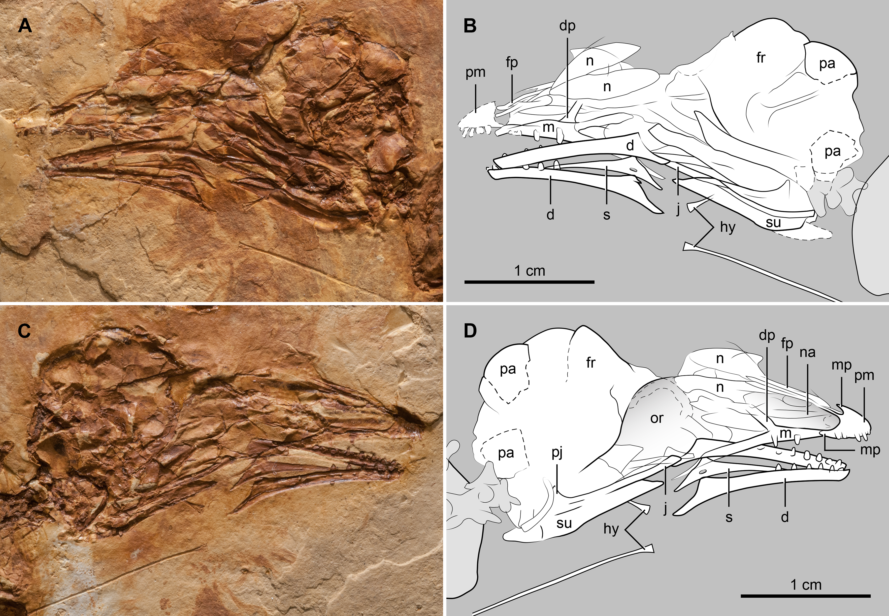 Photograph and interpretive drawing of the skull of Junornis houi. (A, B) BMNHC-PH 919a and (C-D) BMNHC-PH 919b. Abbreviations: d, dentary; dp, dorsal process of maxilla; fp, frontal process of premaxilla; fr, frontal; hy, hyoid; j, jugal; m, maxilla; mp, maxillary process of premaxilla; n, nasal; na, external nares; or, orbit; pa, parietal; pj, postorbital process of jugal; pm, premaxilla; s, splenial; su, surangular.